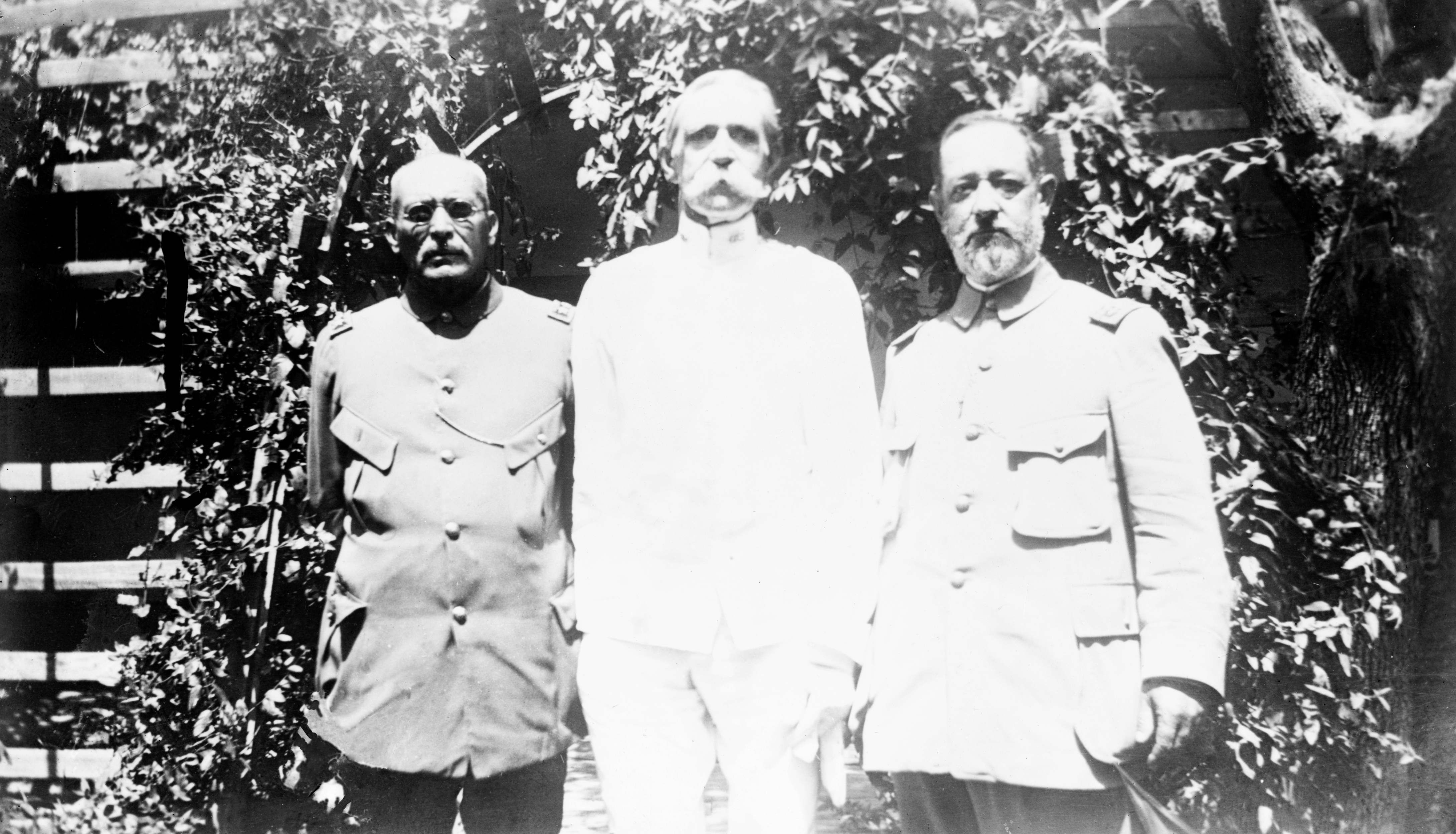 Mexican General Victoriano Huerta (left), U.S. General Edgar Zell Steever II (center) and Mexican General Joaquín Téllez (right).